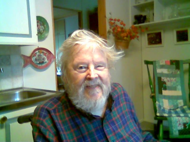 Finnish film director Rauni Mollberg (April 15, 1929 – October 11, 2007). Taken September 3, 2007 by Mr Sakari Savolainen, Kuopio, Finland.